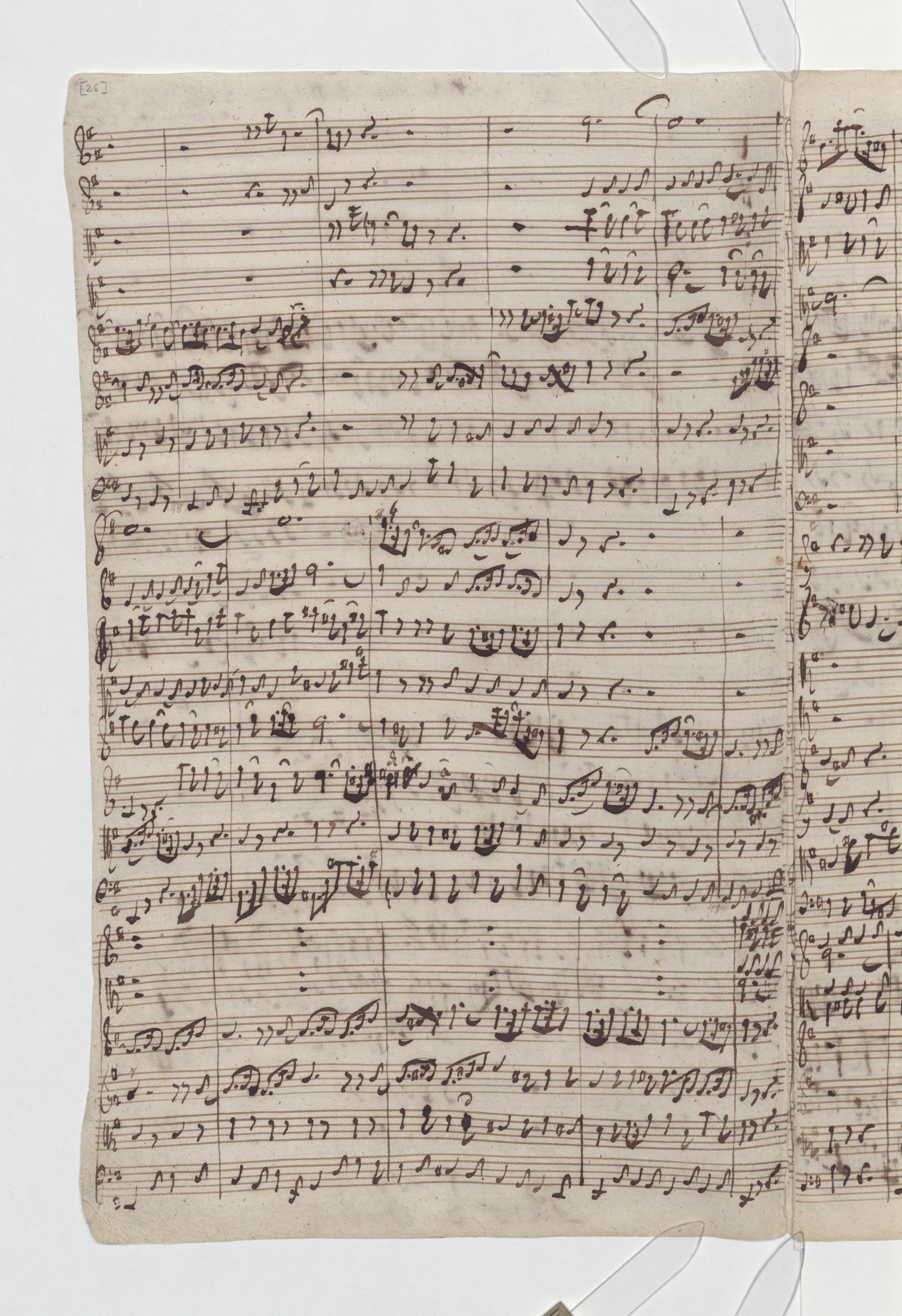 Autograph manuscript of the second page of the Sinfonia from Part II of the Christmas Oratorio, BWV 248